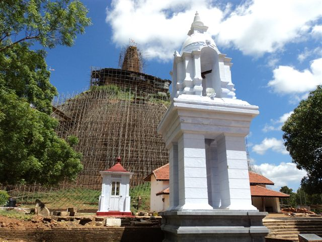 Abhayagiriya Dagaba in Anuradhapura - Sri Lanka